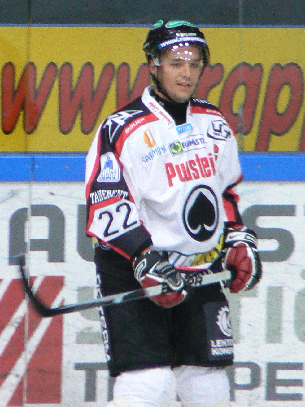 Finnish ice hockey center Matti Kuparinen playing for Pori Ässät in September, 2009.